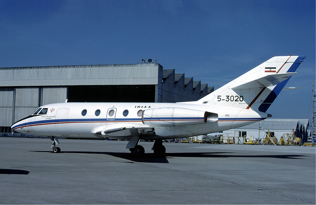 A Dassault Falcon 20 of the Islamic Republic of Iran Army at Basle/Mulhouse Airport